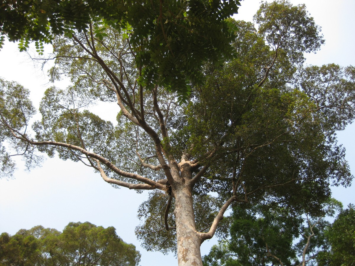 Photographed at the Queen Sirikit Botanic Garden (Chiang Mai Province, Thailand) in March